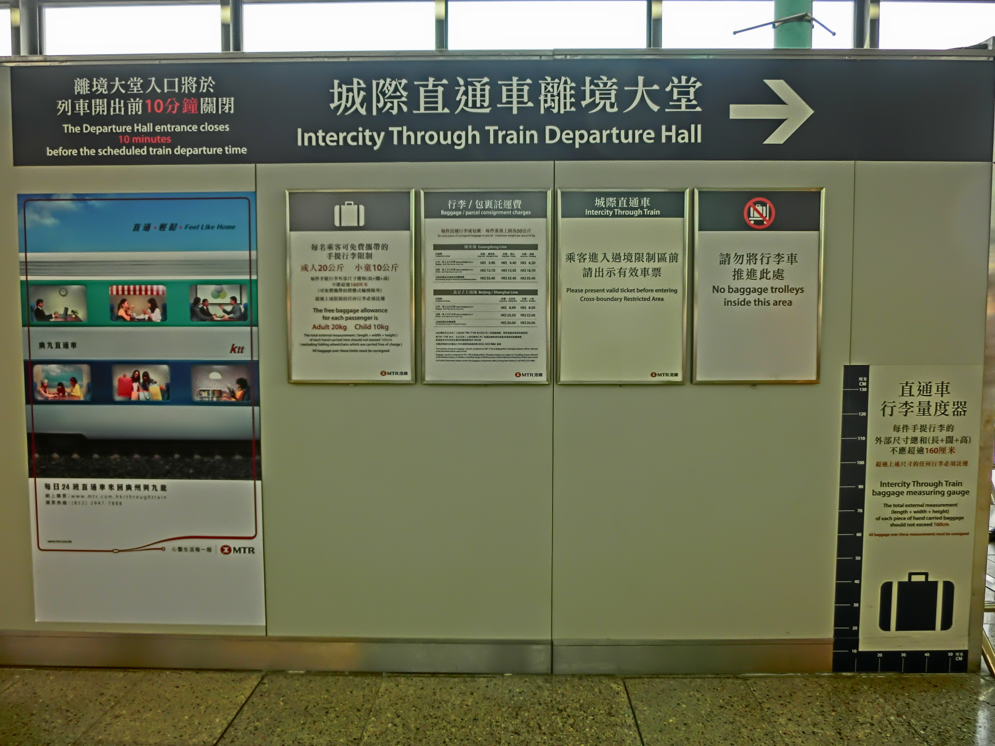 城際直通車 Intercity Through Train, Hung Hom MTR Station, Hong Kong